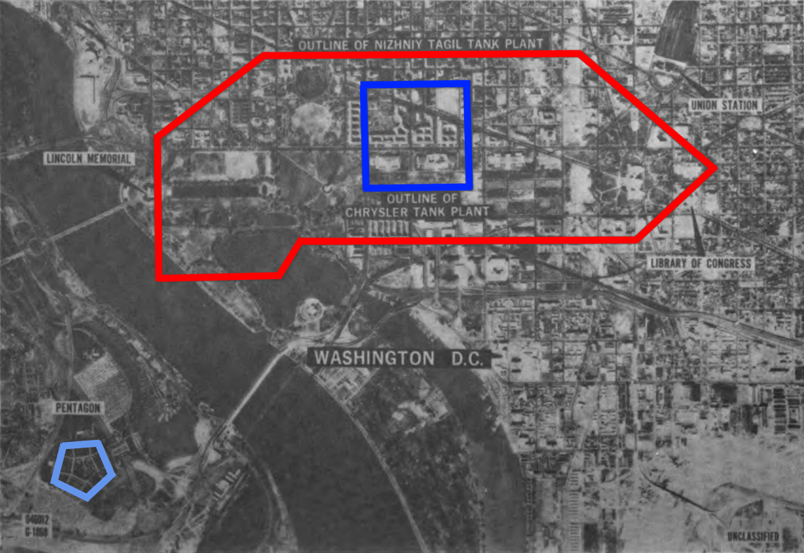 USAIIC Comparison of only US tank production plant Chrysler DTA and largest of three Soviet tank production plants Nizhniy Tagil tank plant extrapolated on the Washington, D.C. aerial map